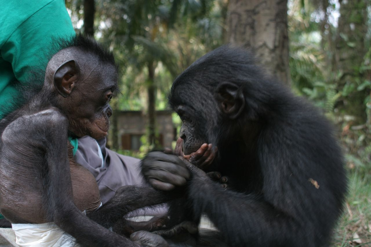 mwanda and lomela at Lola ya Bonobo sanctuary